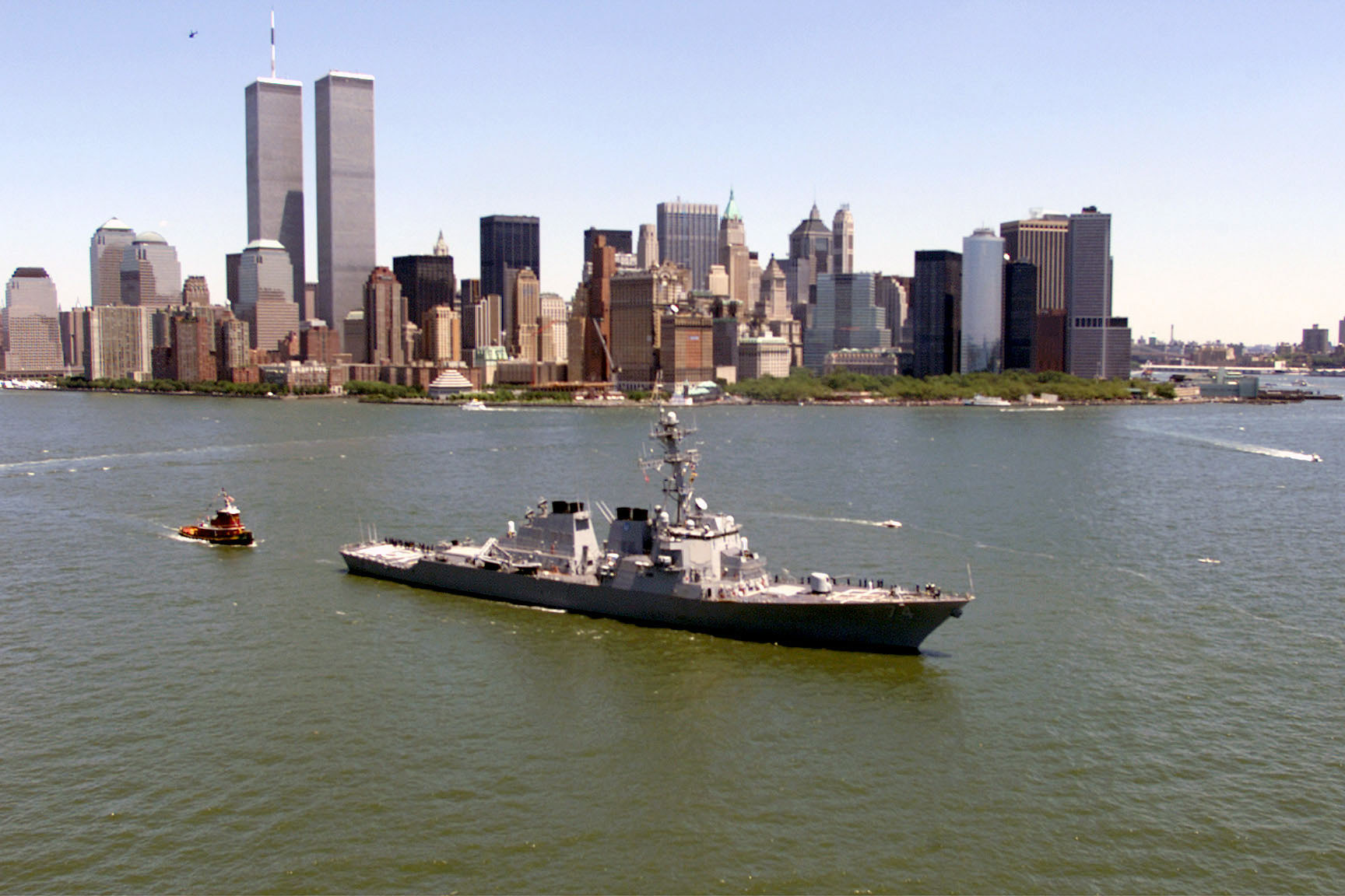 With New York Citys Twin Towers skyline in the background, the USS MCFAUL (DDG 74) is moored in New Yorks harbor during the International Naval Review 2000 (INR 2000), during a week long "Celebration of Sea power for the Millennium." Location: NEW YORK, NEW YORK (NY) UNITED STATES OF AMERICA (USA). Shot: 5 Jul 2000.